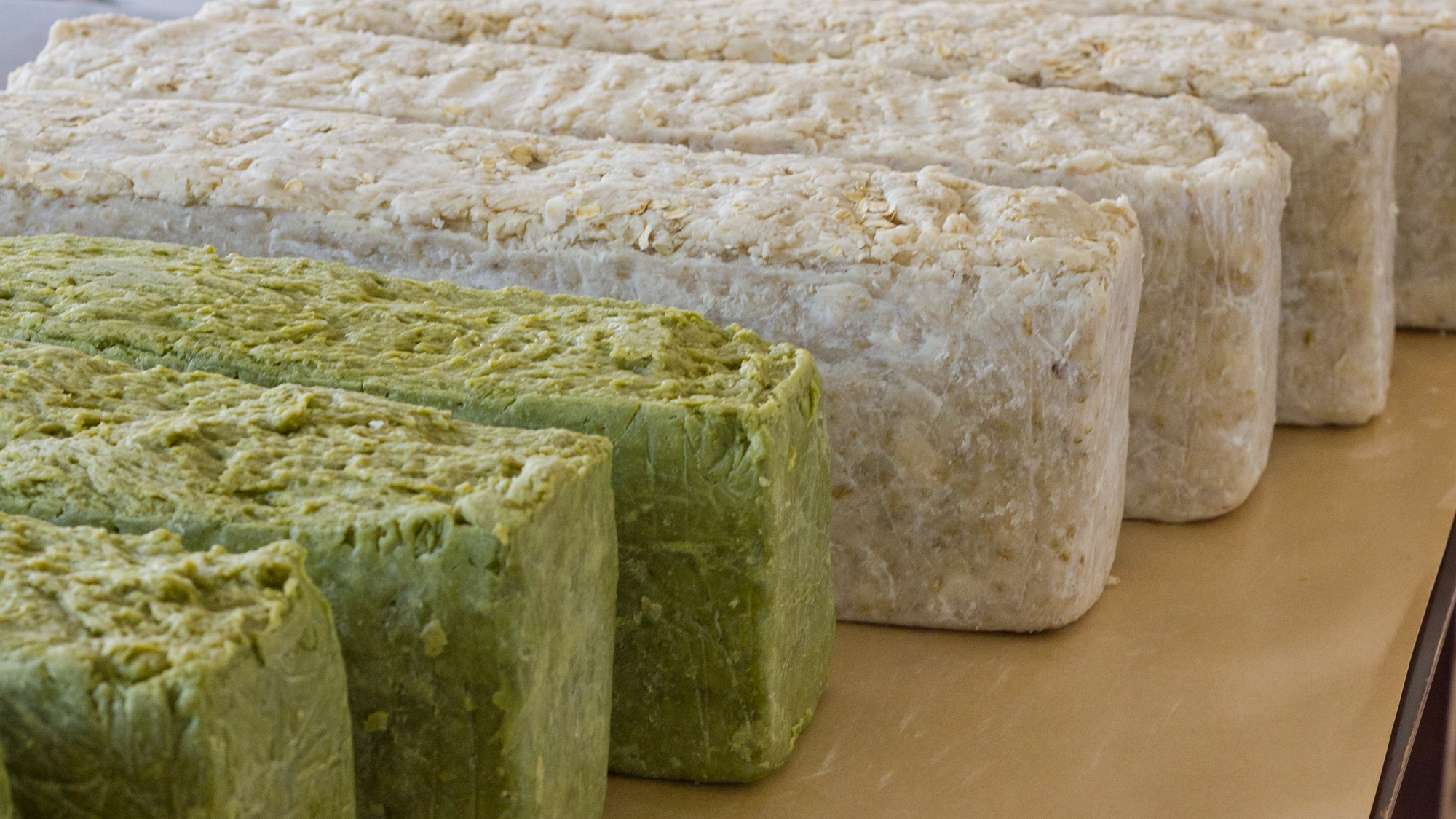 Each soap log contains 10 pounds of oils. Green log is Sabun-Power Bubble; white log is Sabun-Replenish. Kinilly Natural & Organic Products would like to help you rid your bathrooms, kitchens, homes, offices, and businesses of harsh all-natural soap.